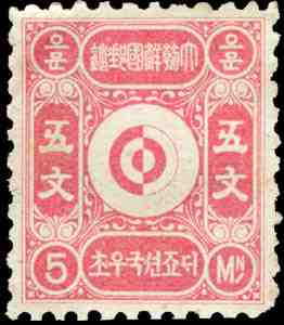 5 mun (문/文) postage stamp from the Kingdom of Joseon (Korea)